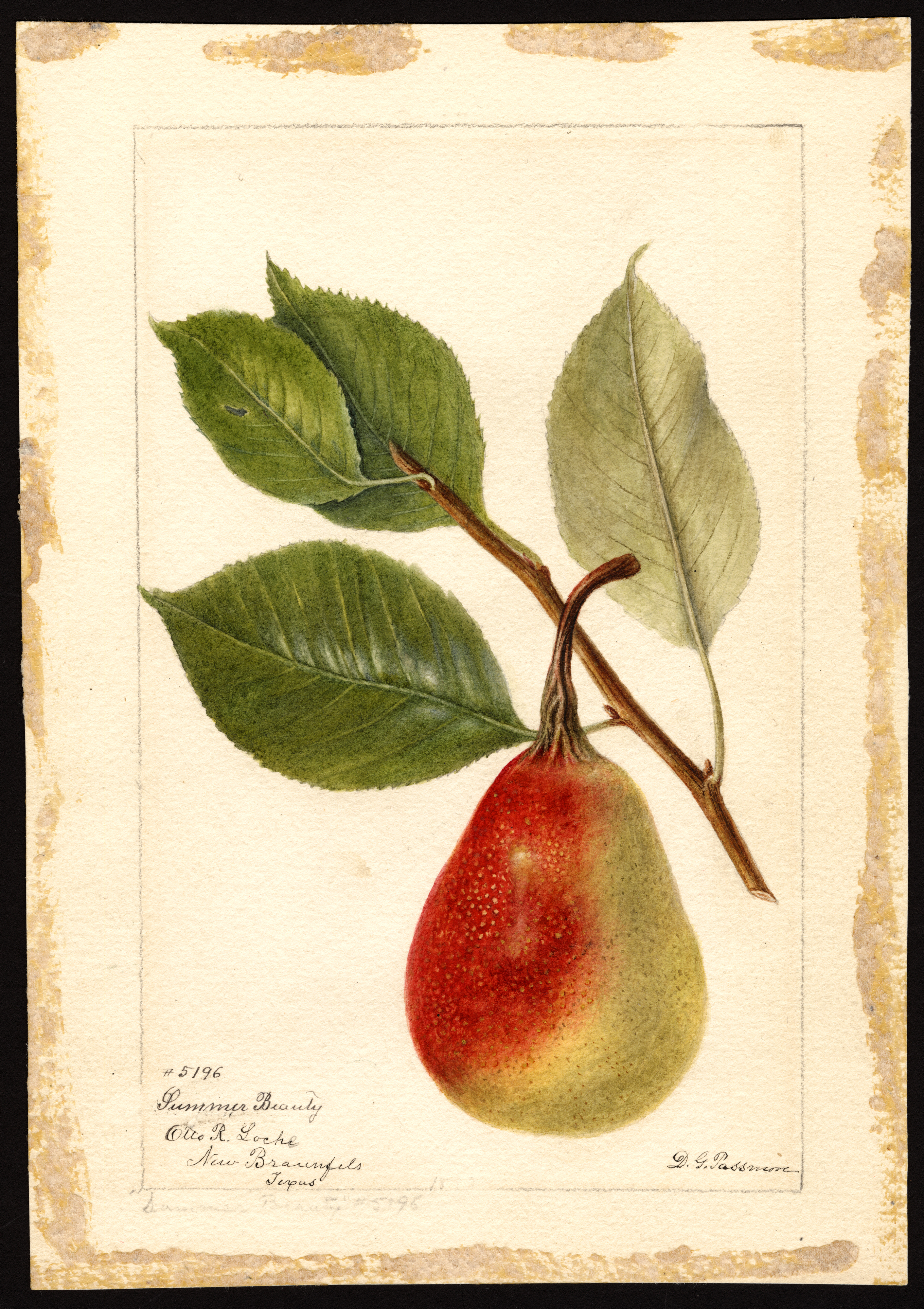 Image of the Summer Beauty variety of pears (scientific name: Pyrus communis), with this specimen originating in New Braunfels, Comal County, Texas, United States. Source: U.S. Department of Agriculture Pomological Watercolor Collection. Rare and Special Collections, National Agricultural Library, Beltsville, MD 20705.